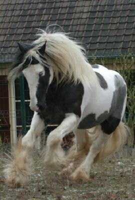 Irish Cob